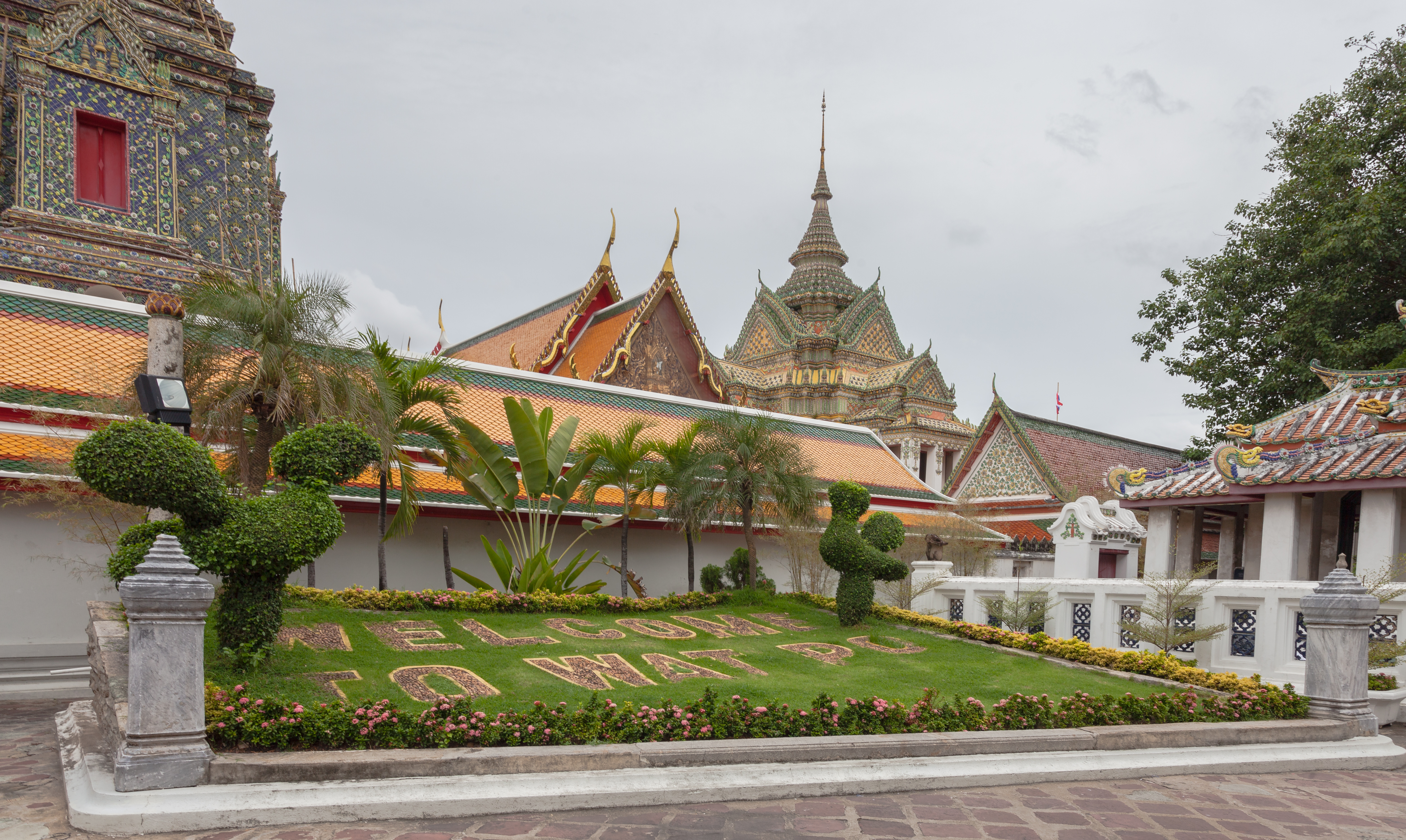 Wat Pho temple, Bangkok, Thailand